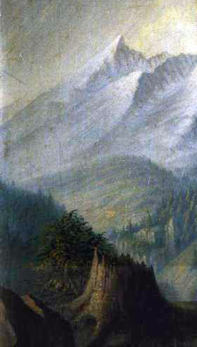 Image of Kriváň from a larger painting